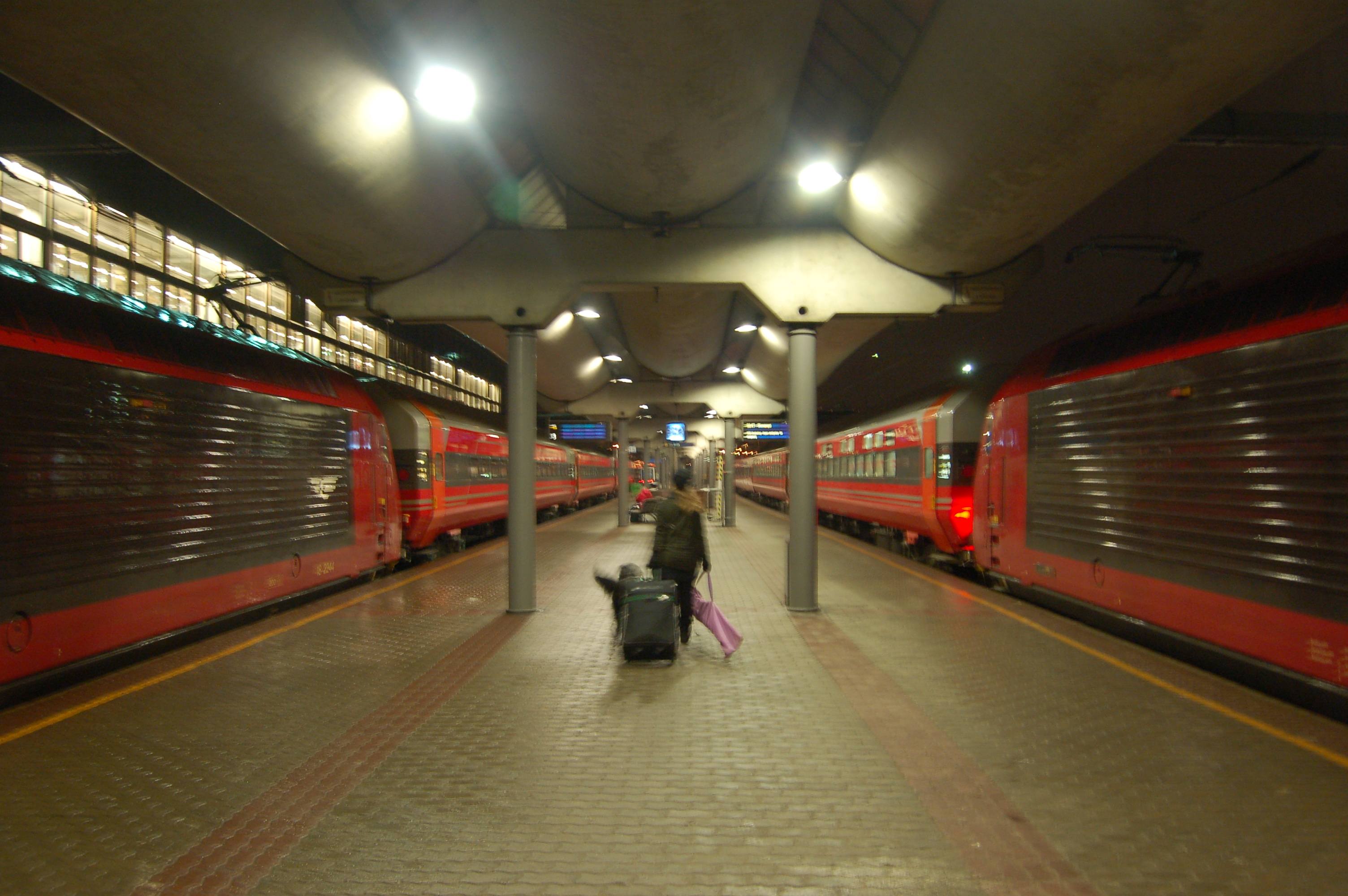 Norges Statsbaner night trains to Bergen (left) and Stavanger (right) at Oslo Central Station